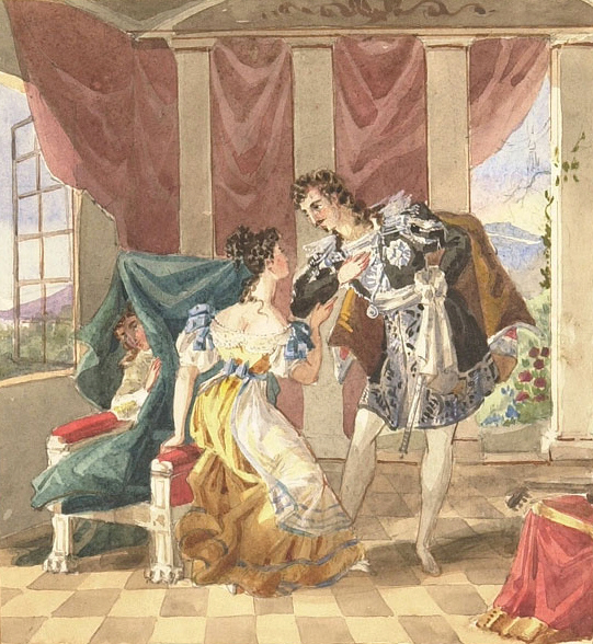 Anonymous watercolour, 19th century: Scene from Mozart's opera Le nozze di Figaro.